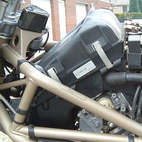 Motorcycle airbox, on a V-2 carburettor Ducati, visible with the fuel tank removed.